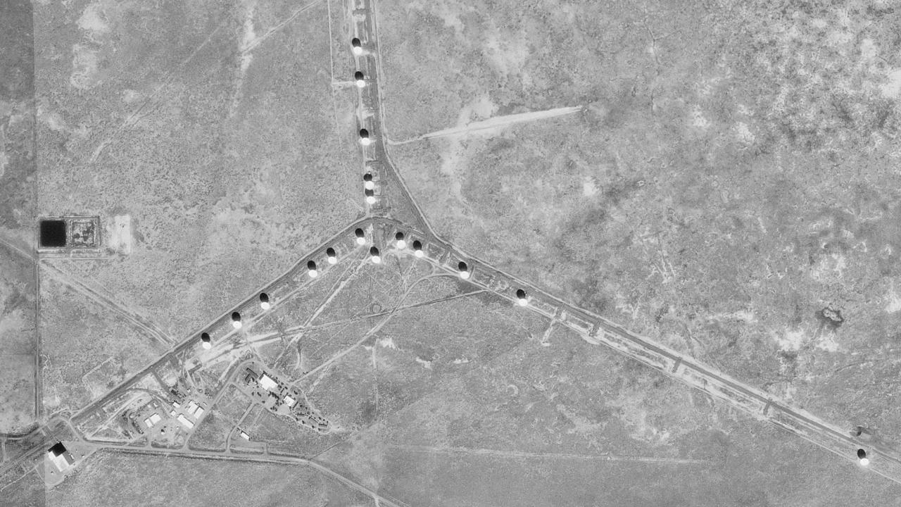 Image shows the Very Large Array Telescope near Socorro, New Mexico, USA. The aerial orth-photo has been taken by the USGS. View altitude is 1.700 m.